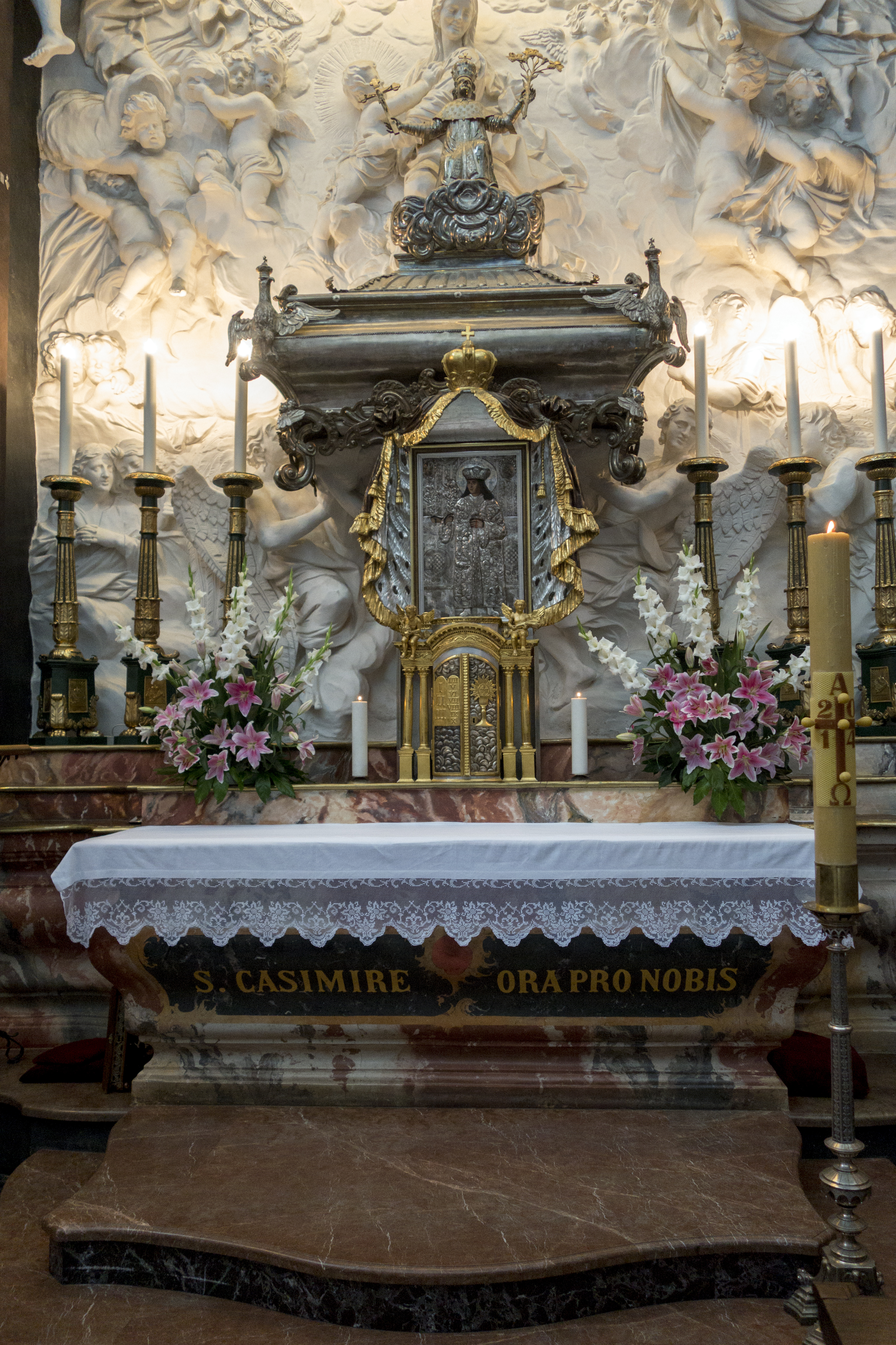 Chapel of St. Casimir in Vilnius Cathedral